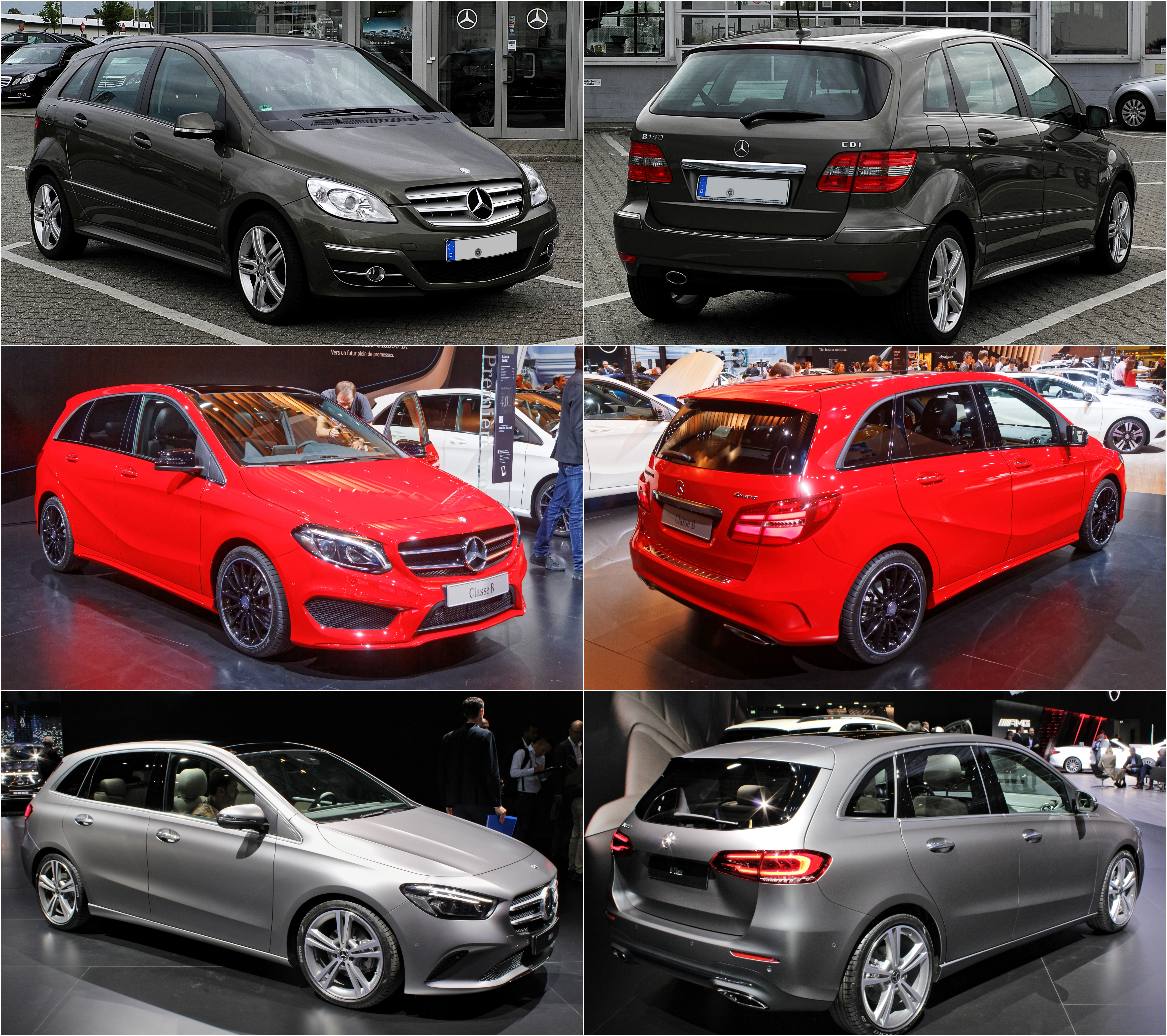 The three series (W245, W246 and W247) of the Mercedes-Benz B-Class compared.